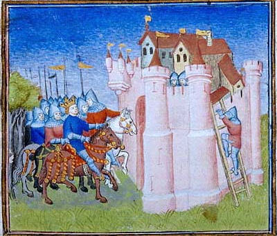 Clovis I - battle of Soissons.